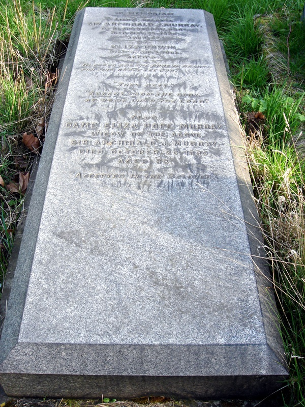 Archibald Murray funerary monument, Brompton Cemetery, London